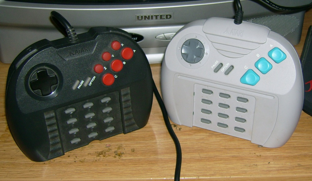 Atari Jaguar ProController und PowerPad. Von mir fotografiert am 01.10.2006